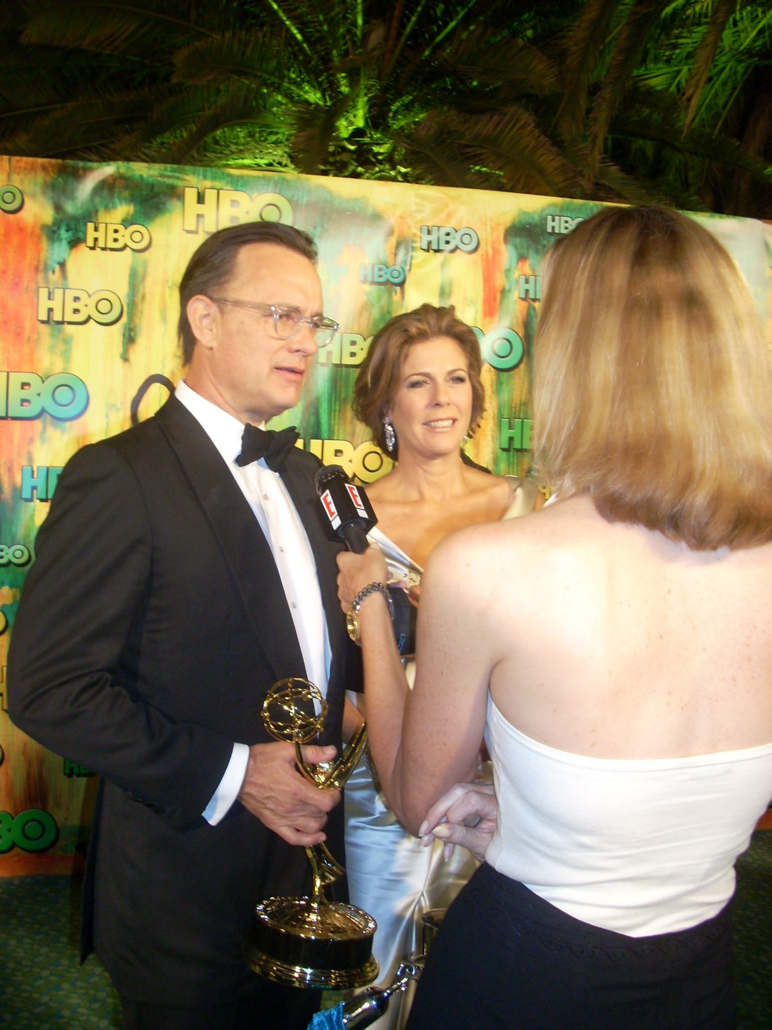 HBO Post-Emmys Party, Pacific Design Center, Sept. 21, 2008